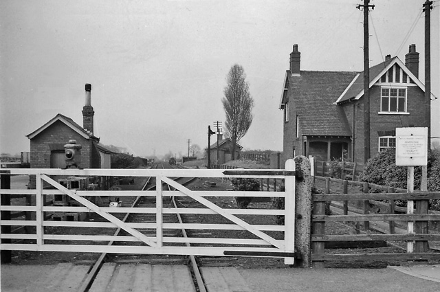 Belton (Lincs.) Station (former). View northward, Towards Goole; Isle of Axeholme Light Railway (L&Y and NE Joint), Haxey Junction - Epworth - Goole (Marshland Junction) line. Line and station closed to passengers 17/7/33, but remained over another 30 years open for goods, until 5/4/65 (Marshland Jct. - Epworth; 1/4/56 Haxey Jct. - Epworth). (It seems that in 1961 the statiion was a private house).